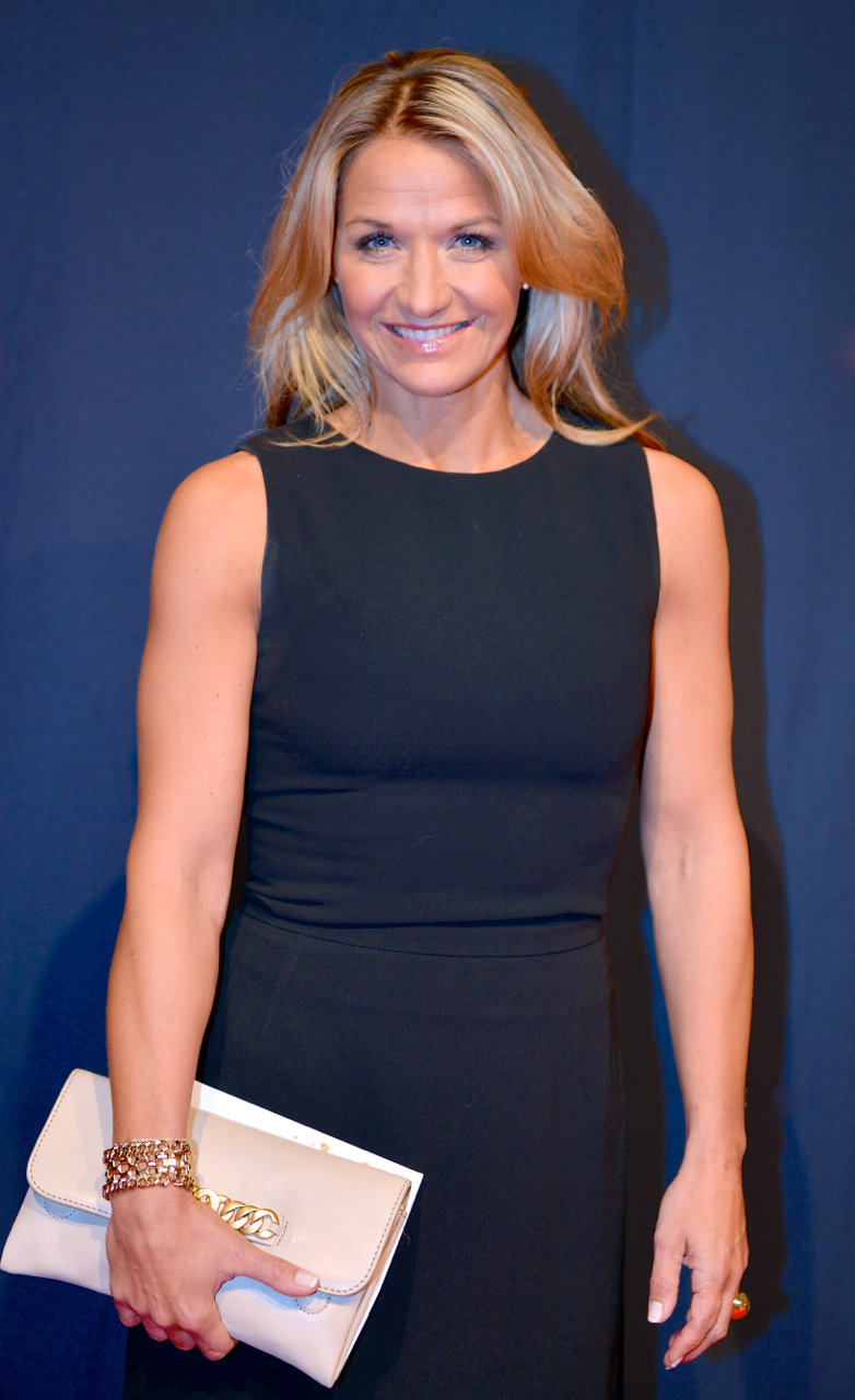 Kristin Kaspersen at the Swedish Sports Gala at the Globe Arena in Stockholm on January 13, 2014.